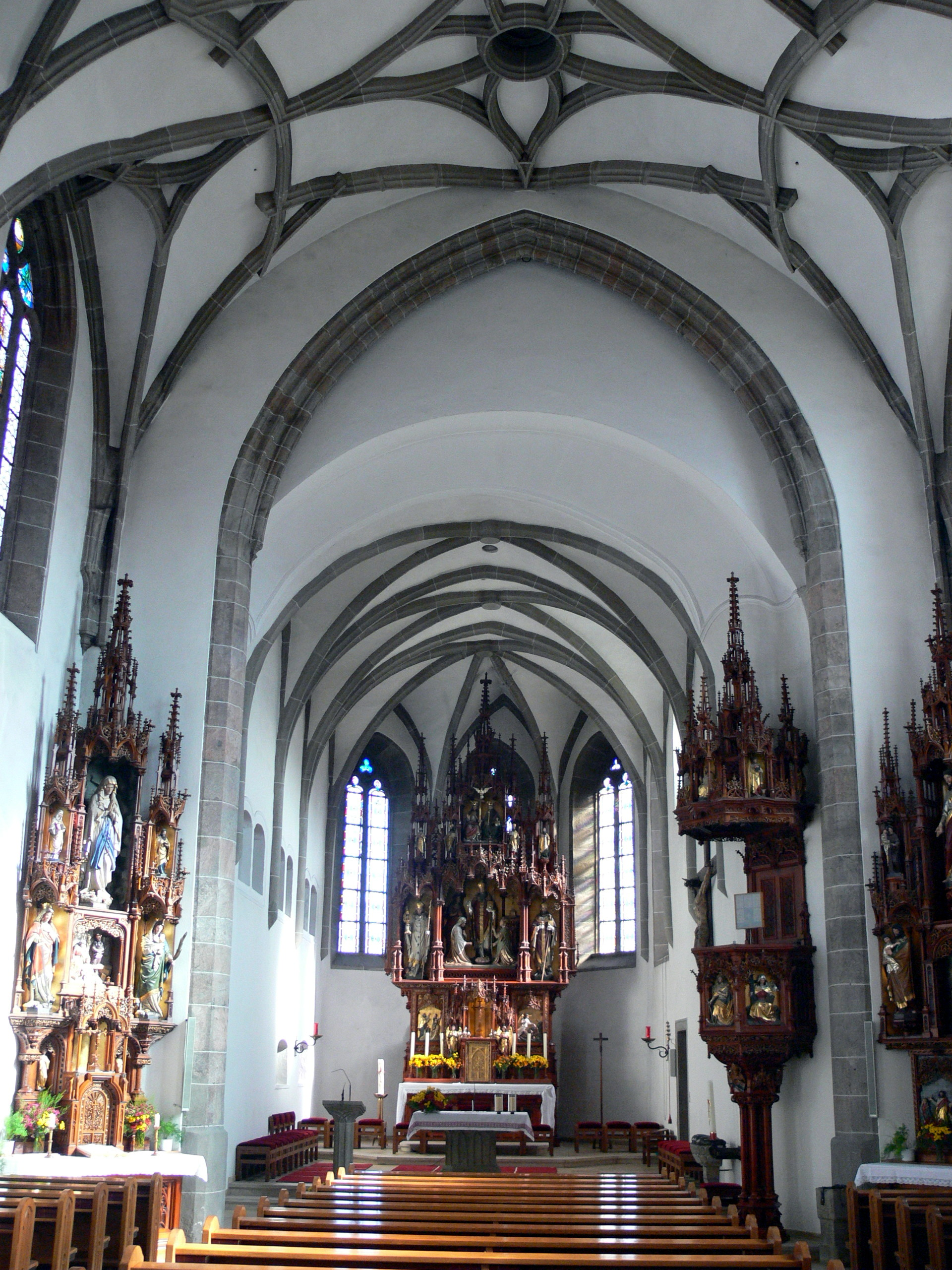 Haslach an der Mühl ( Upper Austria ). Saint Nicholas parish church - Interior ( 15th century ).